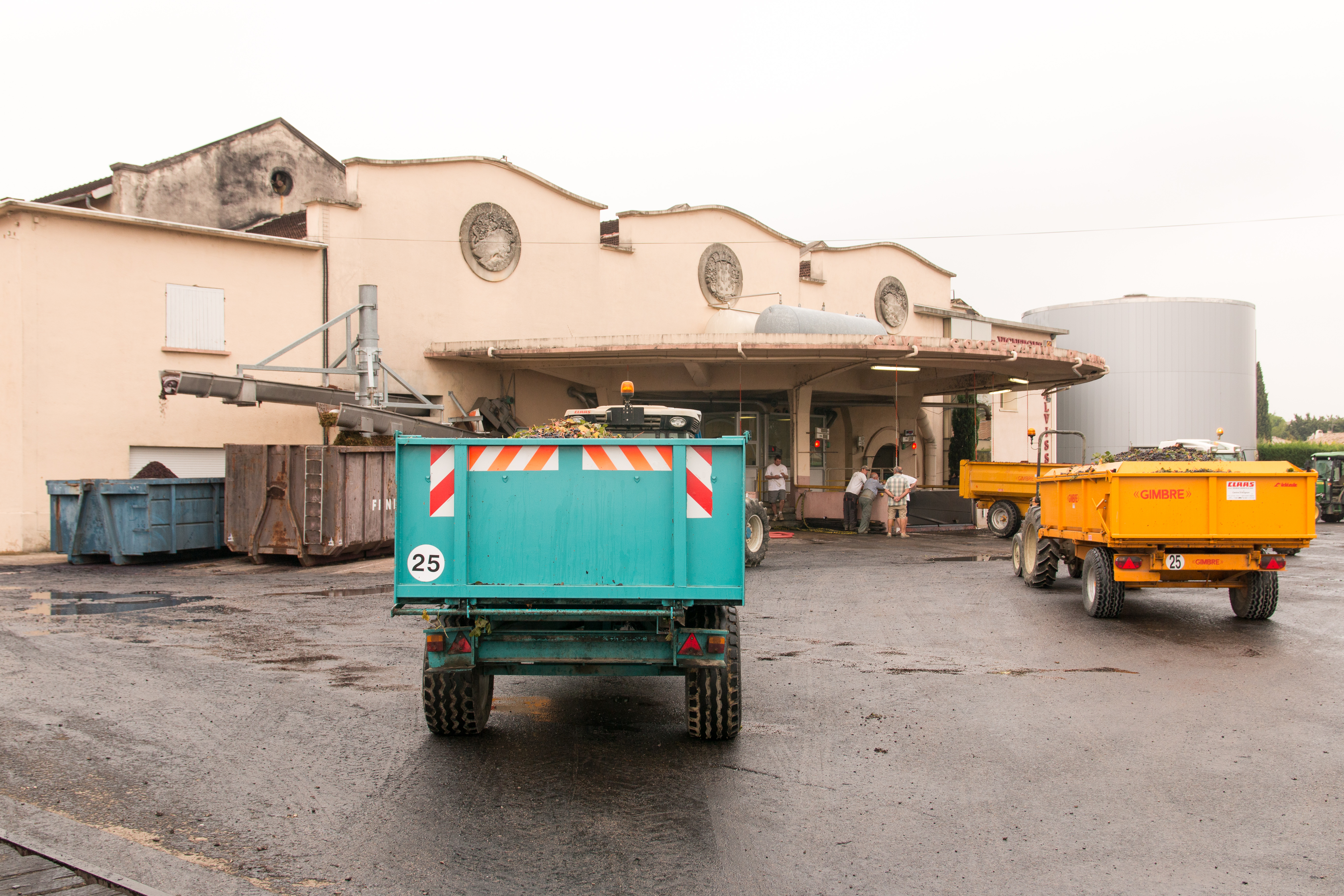 End of the harvest in a autumn weather.